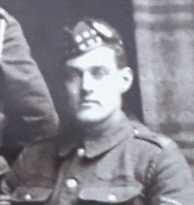 Display in South Stand, Stark's Park, commemorating Raith Rovers F.C. players in McCrae's Battalion.